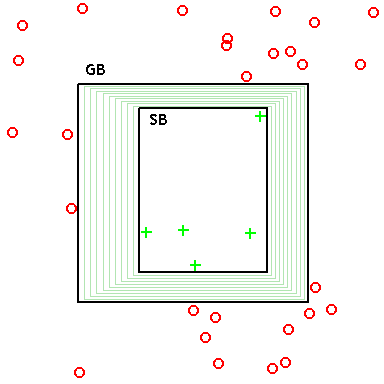 Version space (concept learning) application example